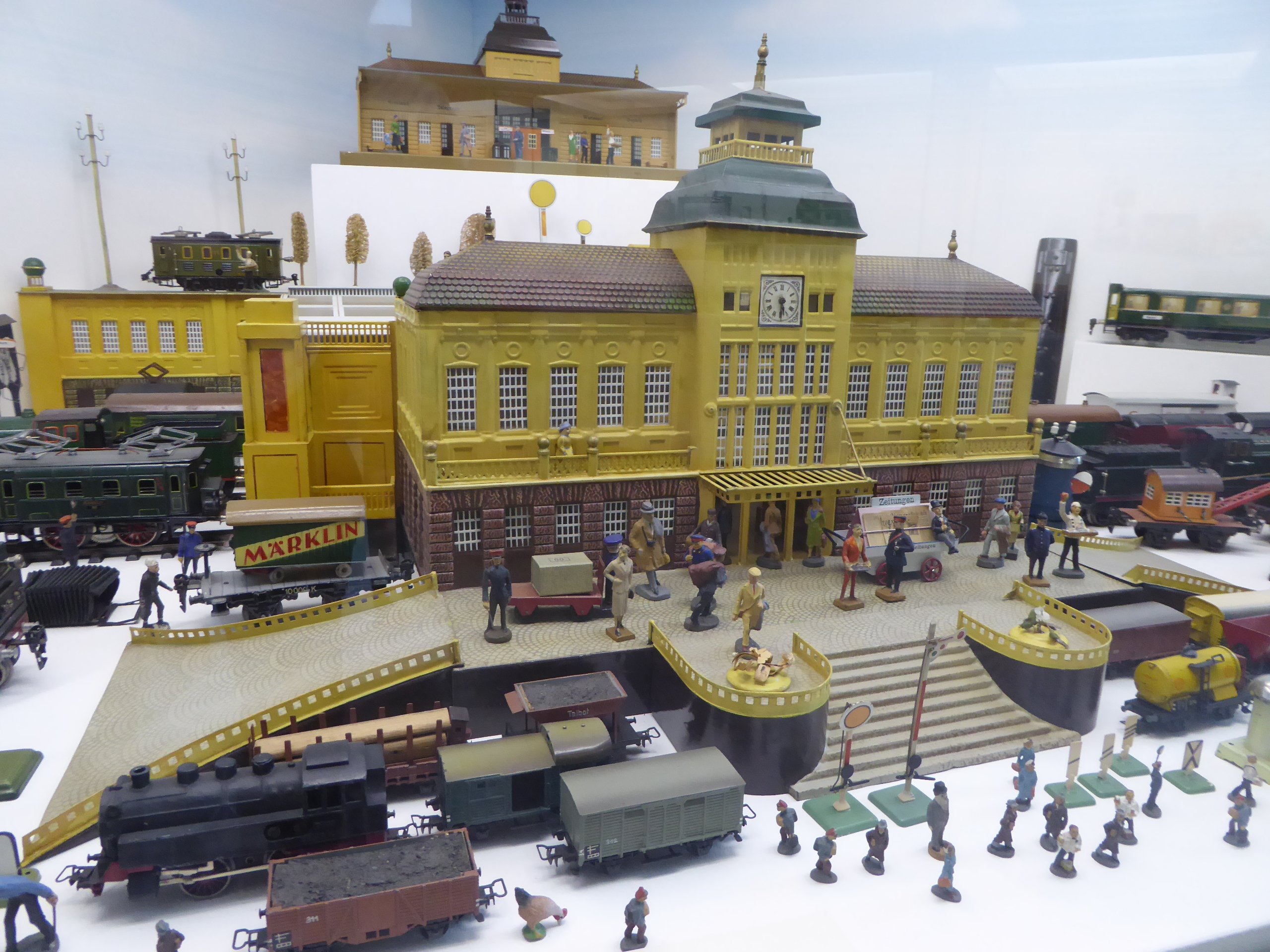 Train station for tin toy trains in the Toy Museum in Prague.